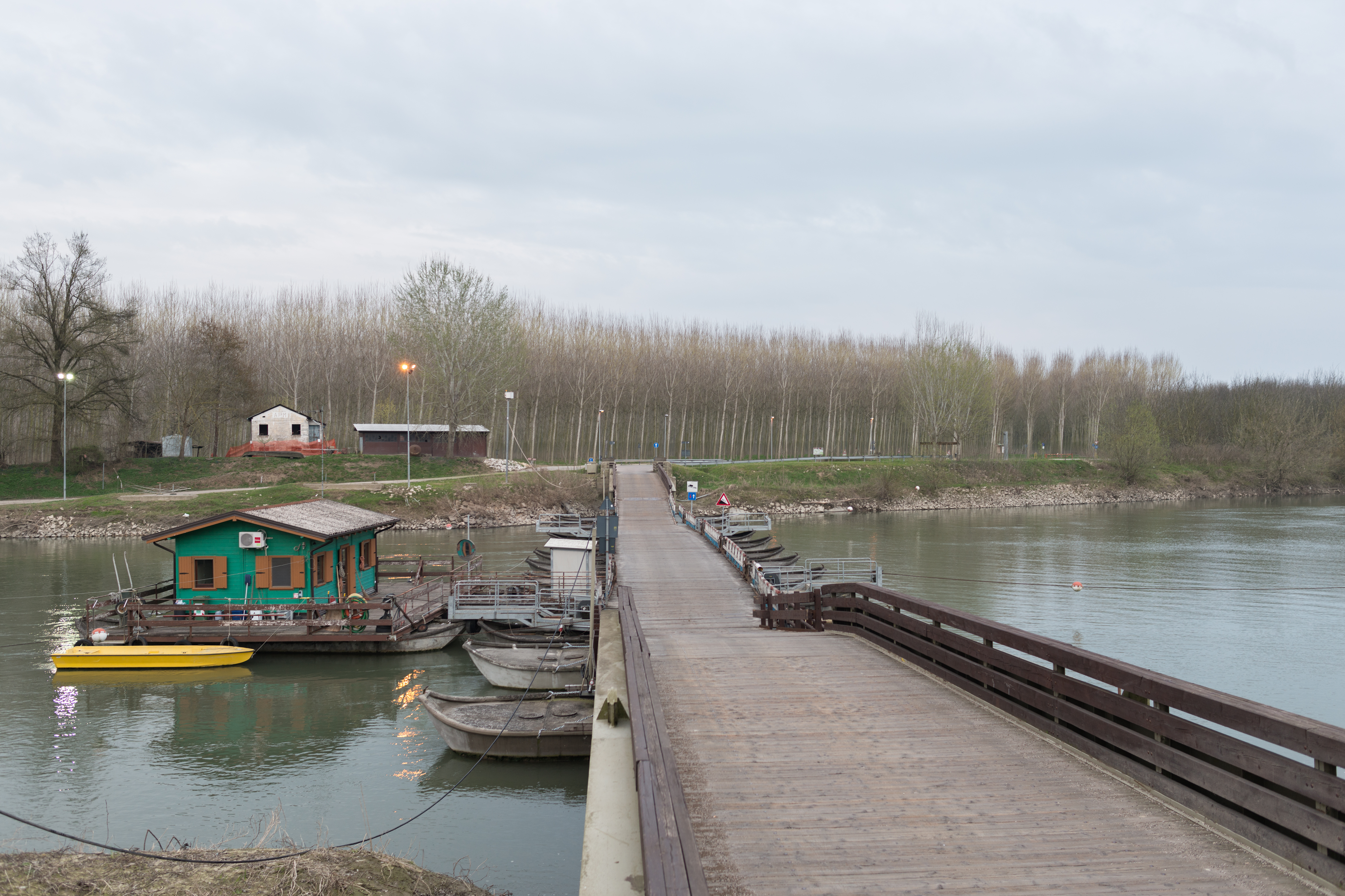 Ponte di Barche sull'Oglio (Pontoon bridge) - Torre d'Oglio, Marcaria, Mantova, Italy